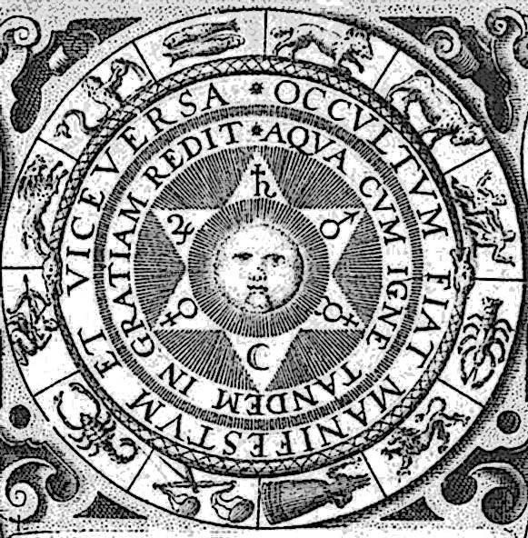 Astrological signs from "Opus medico-chymicum" (1618) by Johann Daniel Mylius